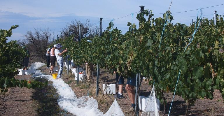 Picking the Riesling grape crop at a Canberra wine region vineyard between Murrumbateman and Canberra. I took this picture, in mid-February 2007. The 2007 harvest has been un-usually early due (it is said) to the drought in Australia since 2003.